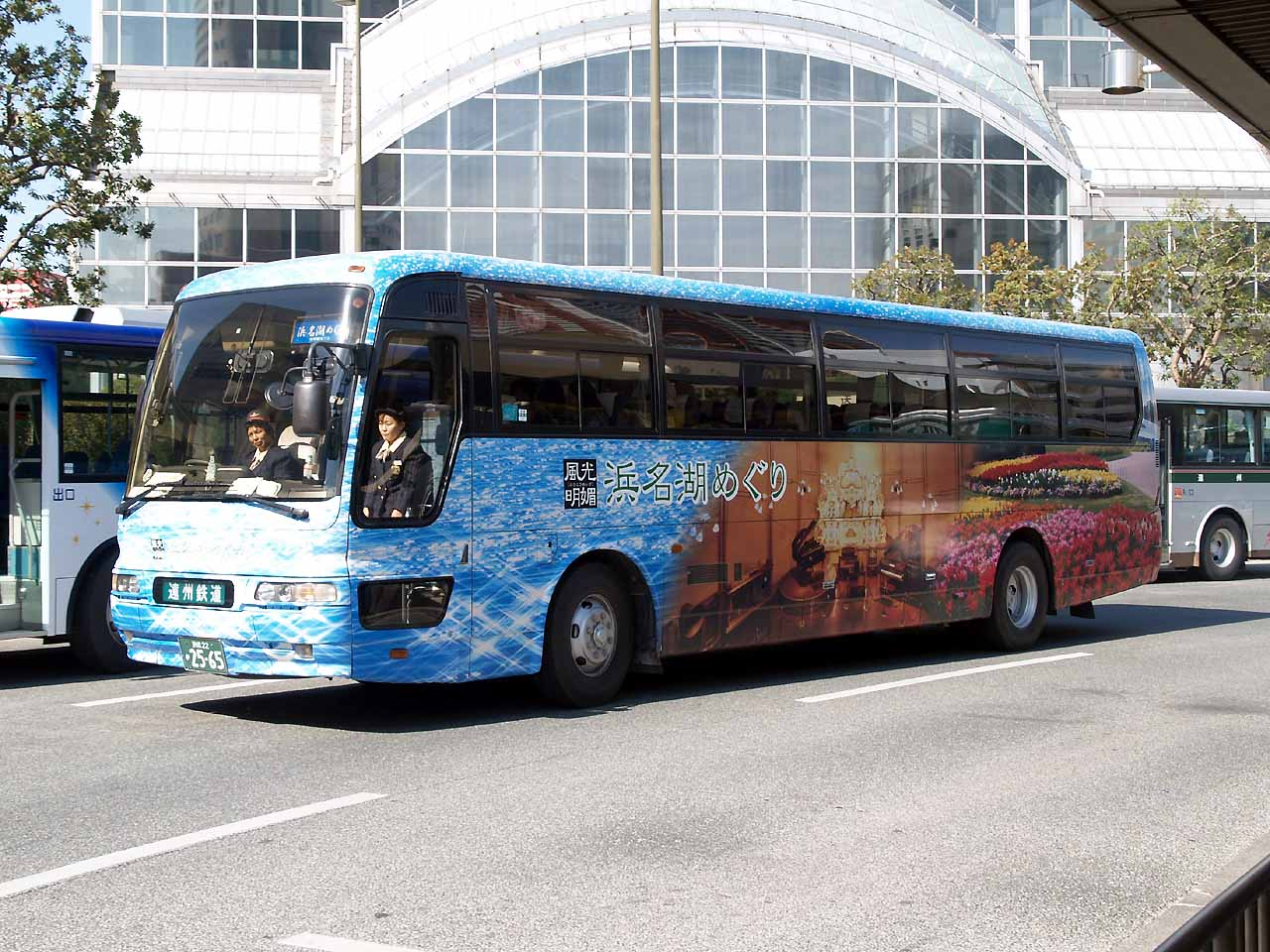 Enshu Railway bus for Hamamatsu City and Hamanako (Lake Hamana) one-day tour. Model: Mitsubishi Fuso Aero Bus U-MS826P License plate: SZH22 KA2565 Place: Hamamatsu Station: Naka Ward, Hamamatsu City, Shizuoka Japan